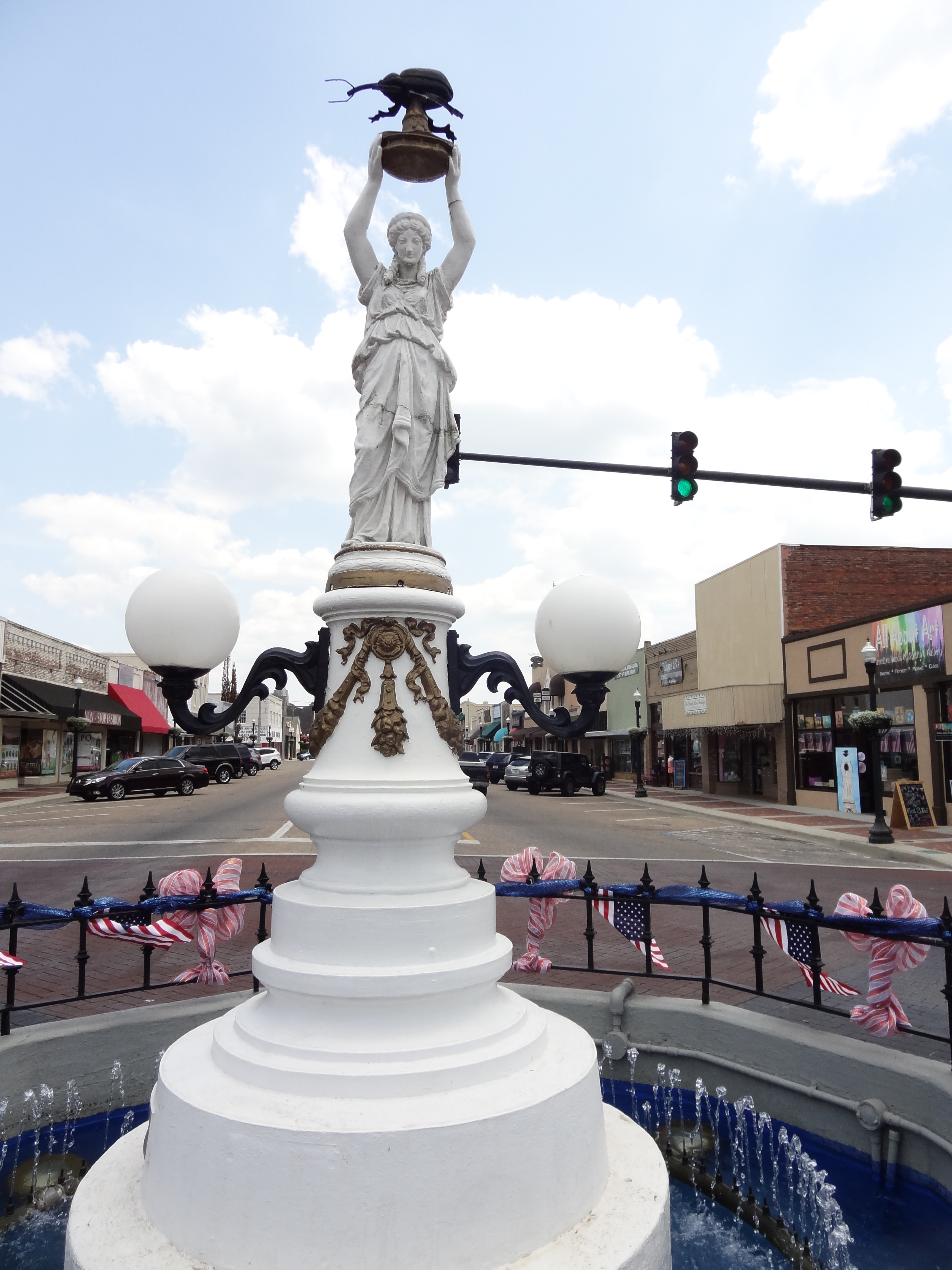 Boll weevil monument in Alabama